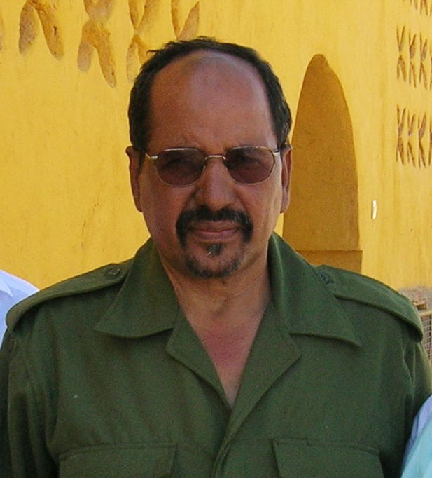 Mohamed AbdelazizJanuary 4, 2006 Up-loading from taking a picture Flickr